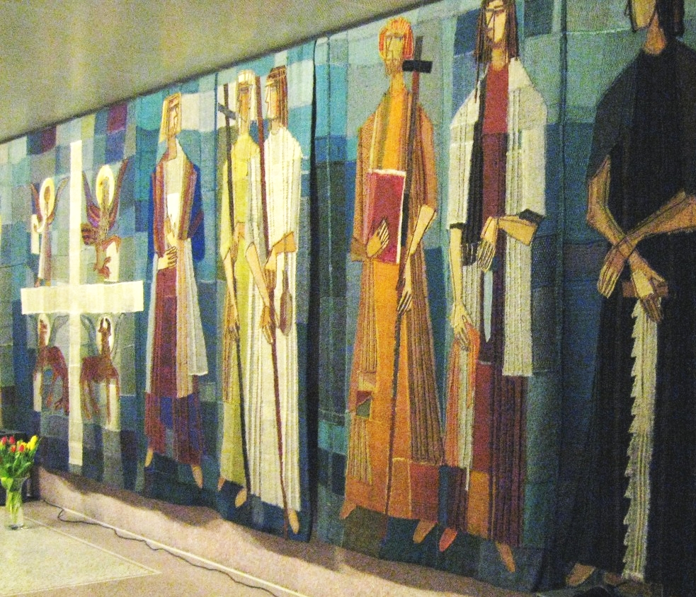 "Apostels", overview. Wall hanging by Ruth von Fischer, 1968.